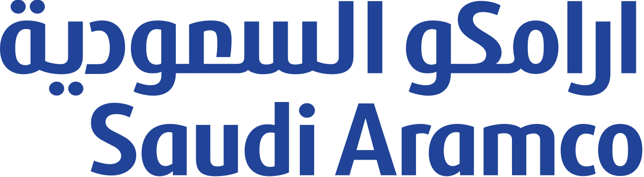 Saudi Aramco logo, a Saudi Arabian national oil and natural gas company based in Dhahran, Saudi Arabia.